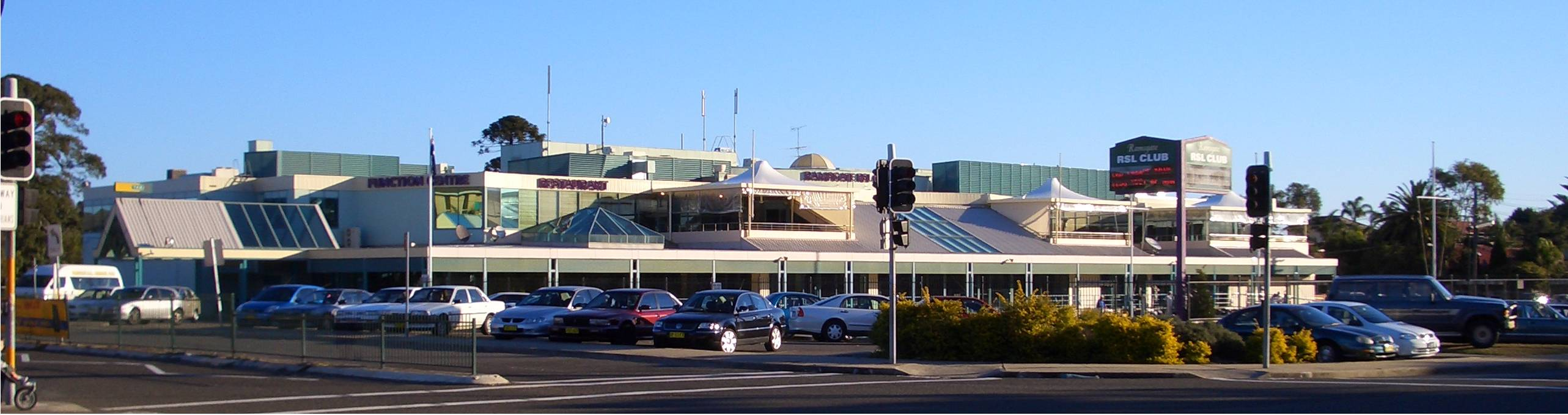 Ramsgate RSL, Sydney, Australia. I took the photo on 8th July 2006. J Bar 23:44, 25 July 2006 (UTC)